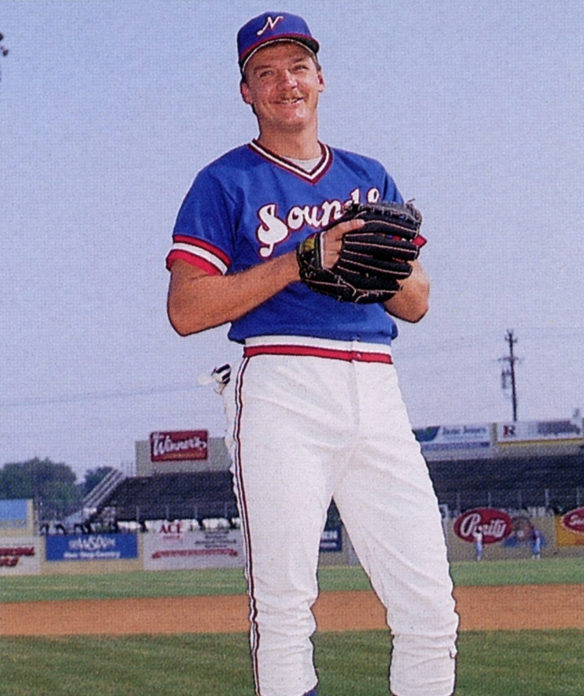 Pitcher Chuck Cary of the 1986 Nashville Sounds Minor League Baseball team of the American Association